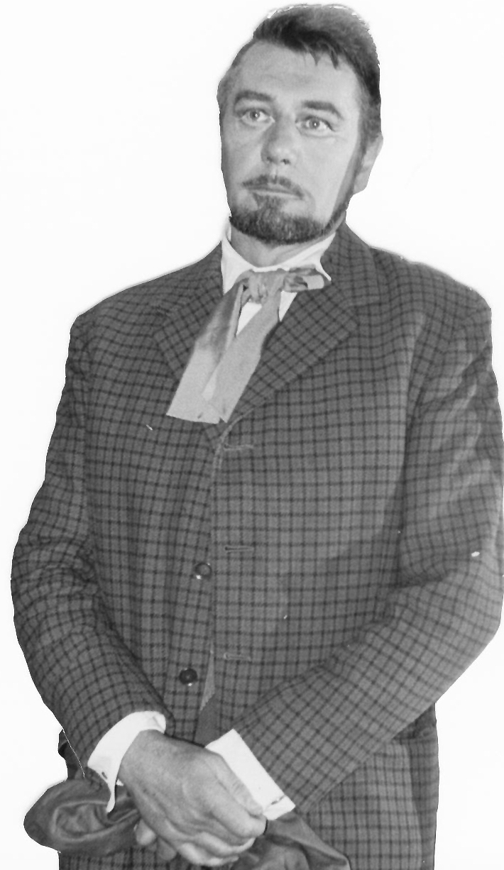 Michael Redgrave in costume for the lead role of Uncle Vanya poses for the photographer (Tony French) backstage at Chichester Festival Theatre during the opening season in 1962.